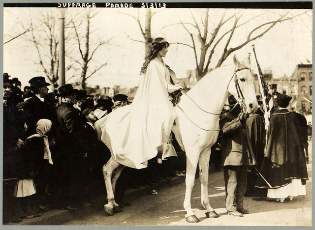 Inez Boissevain, wearing white cape, seated on white horse at the suffrage parade in Washington, D.C., 1913.